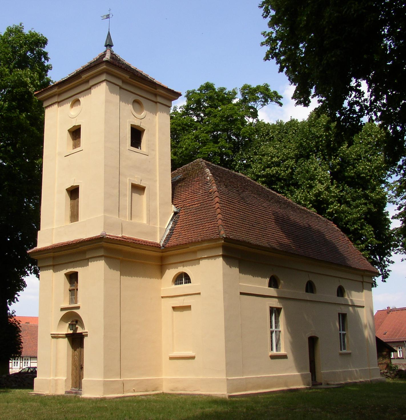 Church in Heiligengrabe-Jabel in Brandenburg, Germany